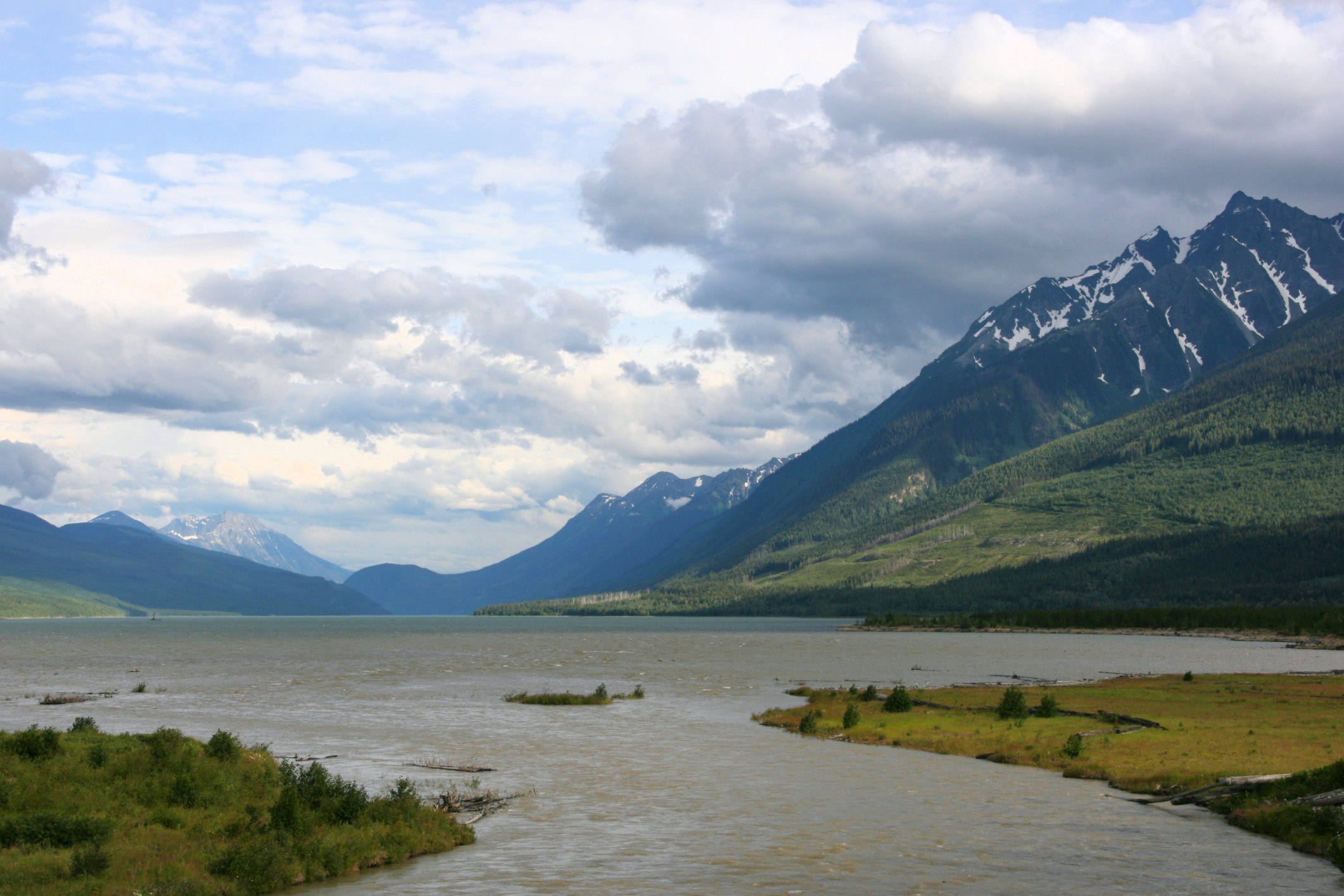 Kinbasket Lake - reservoir on Columbia River in British Columbia, Canada. Photo taken at the northern tip of the lake, looking south. On the right - Monashee Mountains, range of Columbia Mountains.